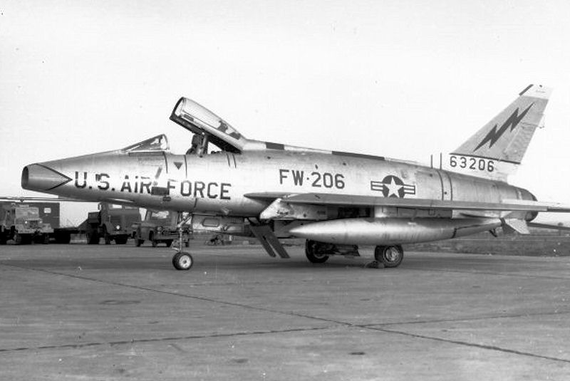 8th Tactical Fighter Squadron North American F-100D-90-NA Super Sabre 56-3206, Étain-Rouvres AB, France. Aircraft crashed Dec 20, 1962 17mi S of Ramstein AB, West Germany